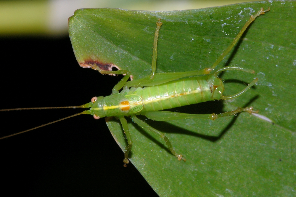 Meconema meridionale, Nied, Frankfurt/Main, Germany